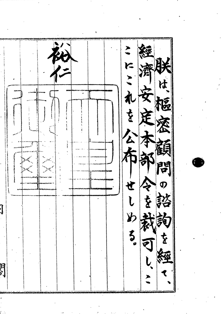 Emperor Hirohito promulgated the Imperial Ordinance of the Headquarters for Economic Stabilization (Imperial Ordinance No.380 of 1946) on August 10, 1946.